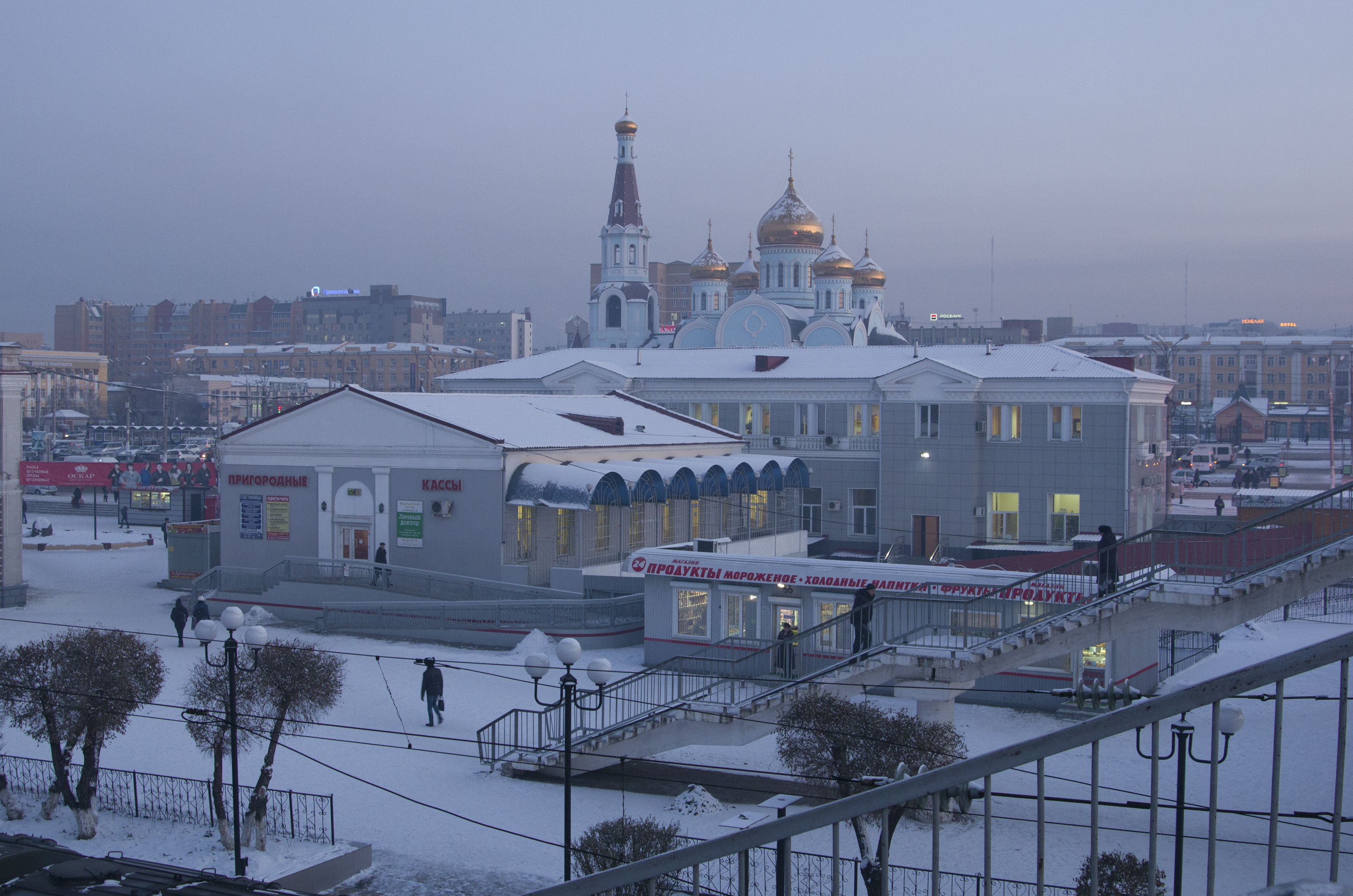 Chita, Zabykalsky Krai, Russia